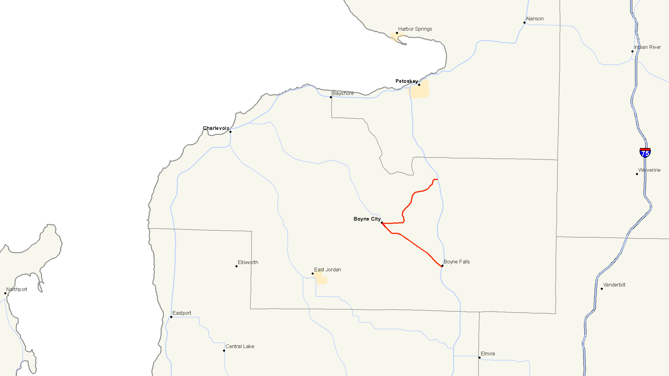 Map of M-75